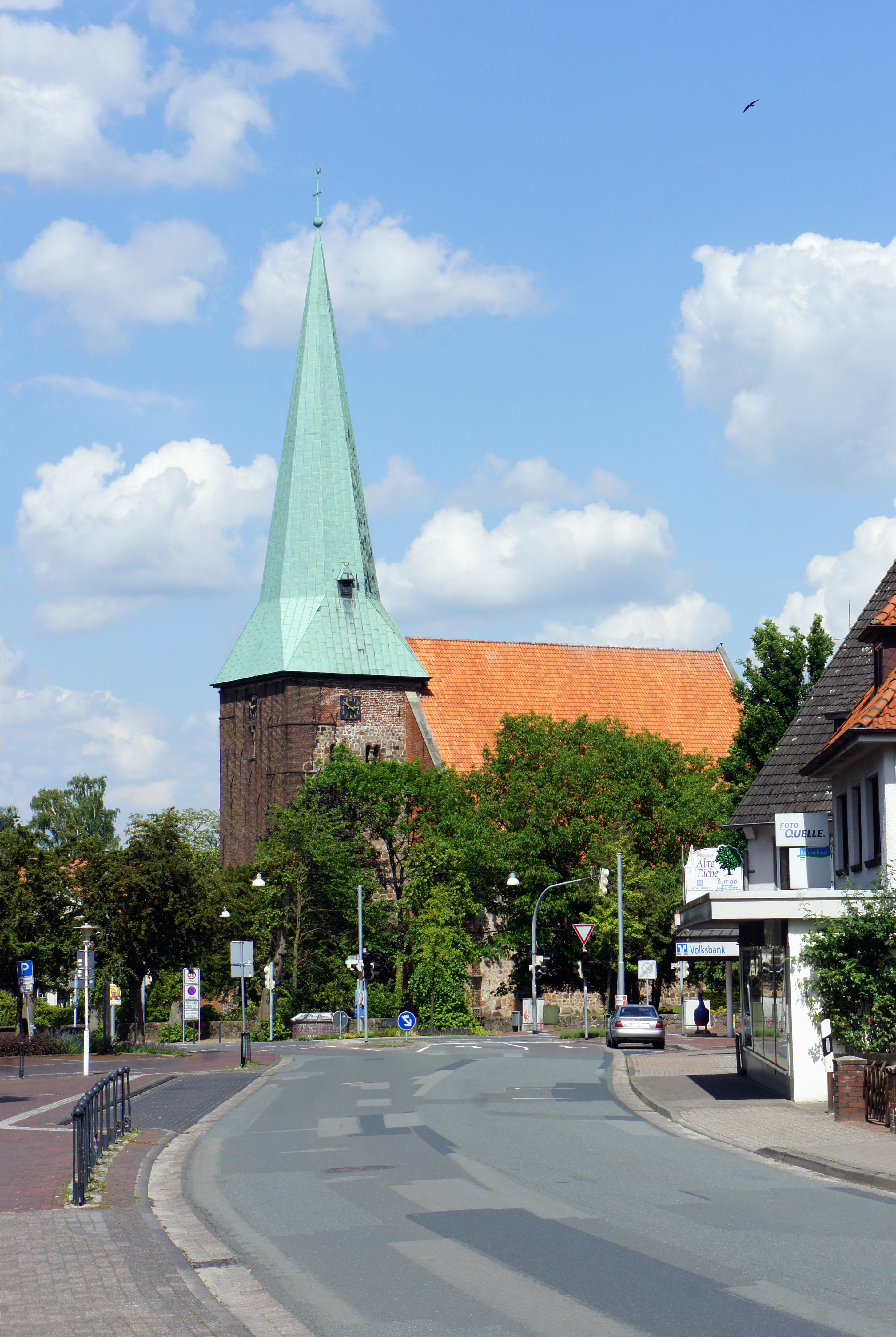 St. Cyprian and Cornelius Church in Ganderkesee